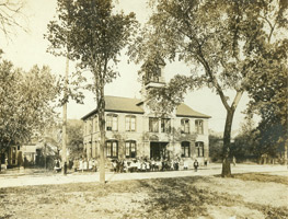 A photo of Sale School, Green Bay's first official school building. Date of photograph unknown.